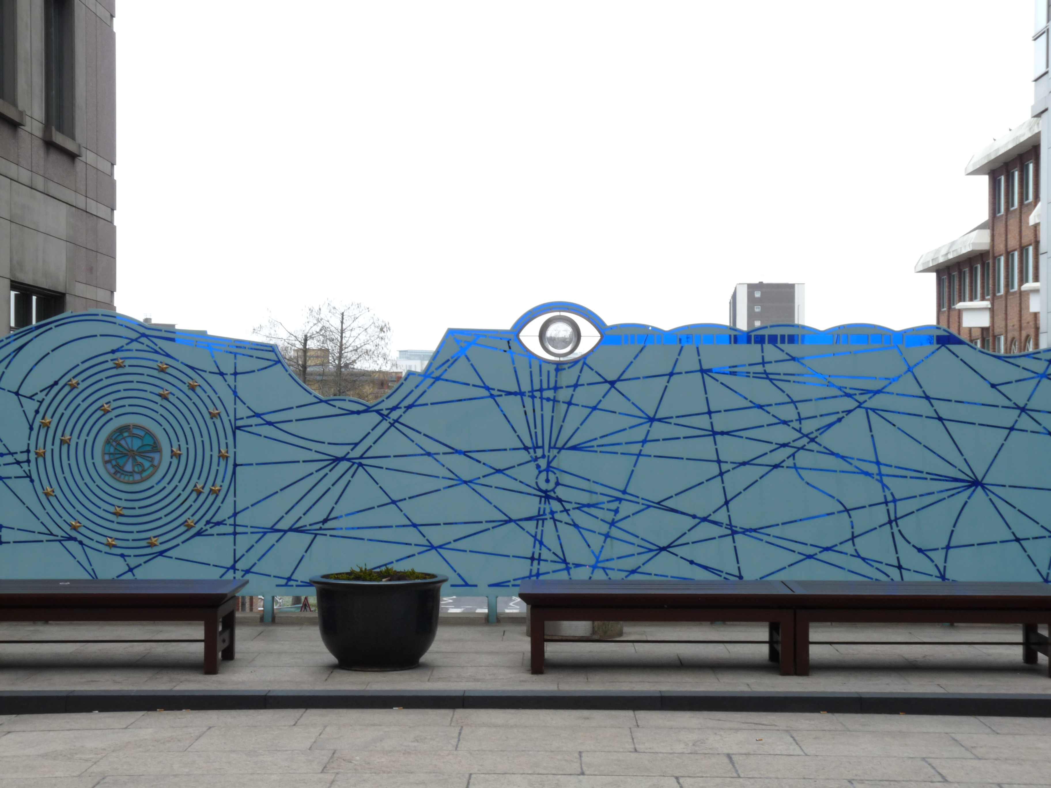 Columbus Screen by Wendy Ramshaw is a 2000 sculpture in steel and perspex in Columbus Courtyard, Canary Wharf